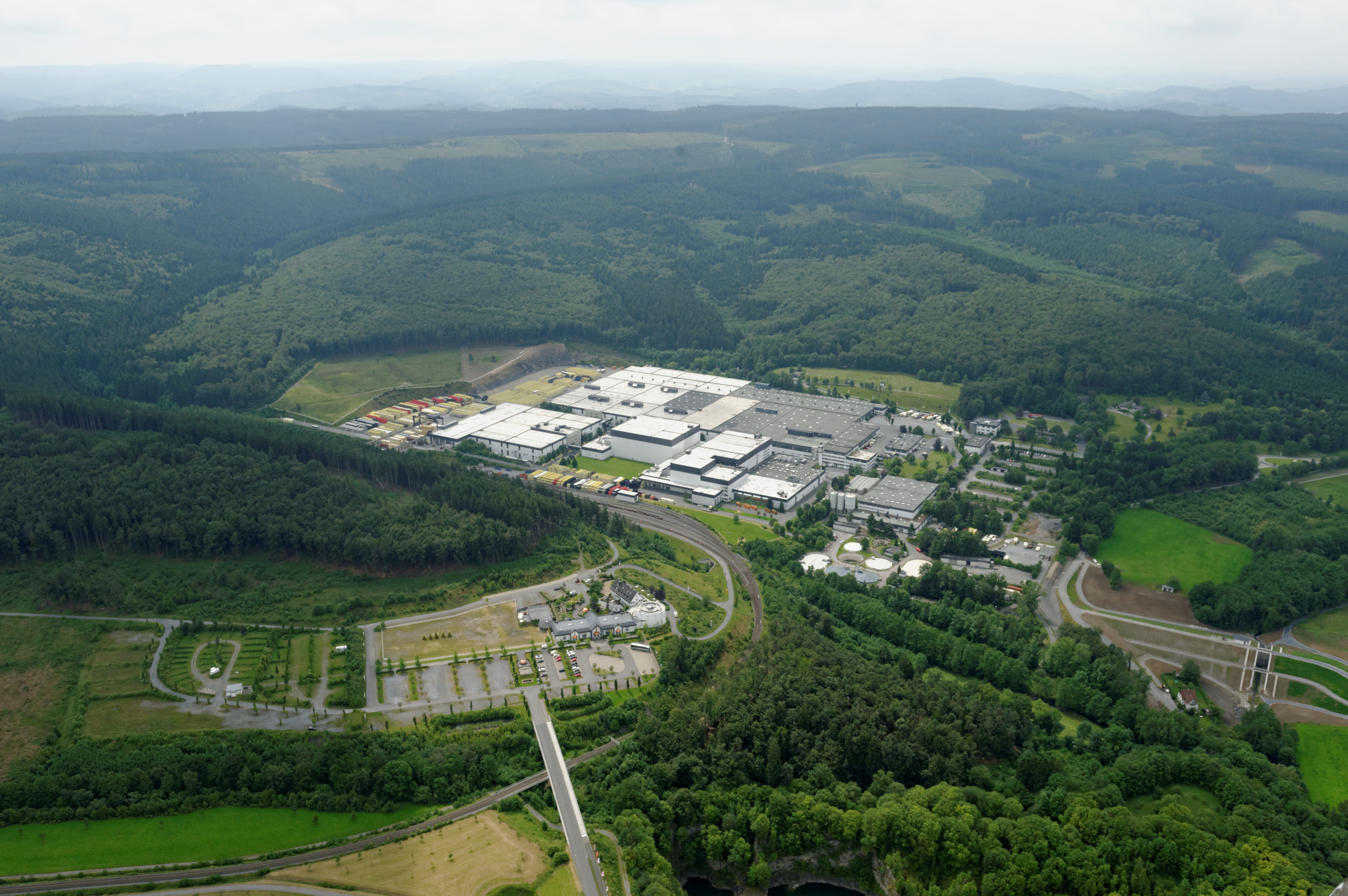 Fotoflug Sauerland Nord, Warsteiner Brauerei mit Besucherzentrum (links) aus Richtung Norden The making of this document was supported by the Community-Budget of Wikimedia Germany.